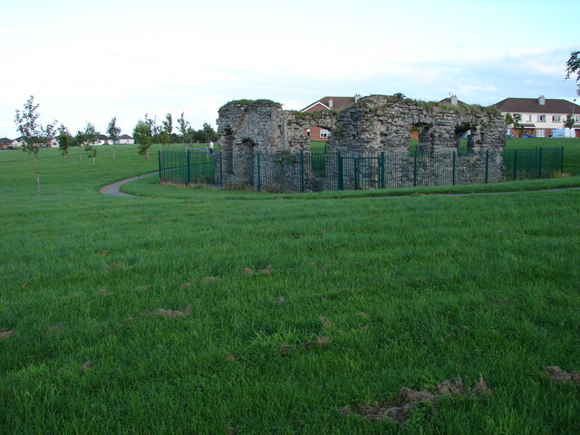 Glasmore Abbey Ruins Protected structure situated in a fenced-off area of open space near the Lios Cain Housing Estate.